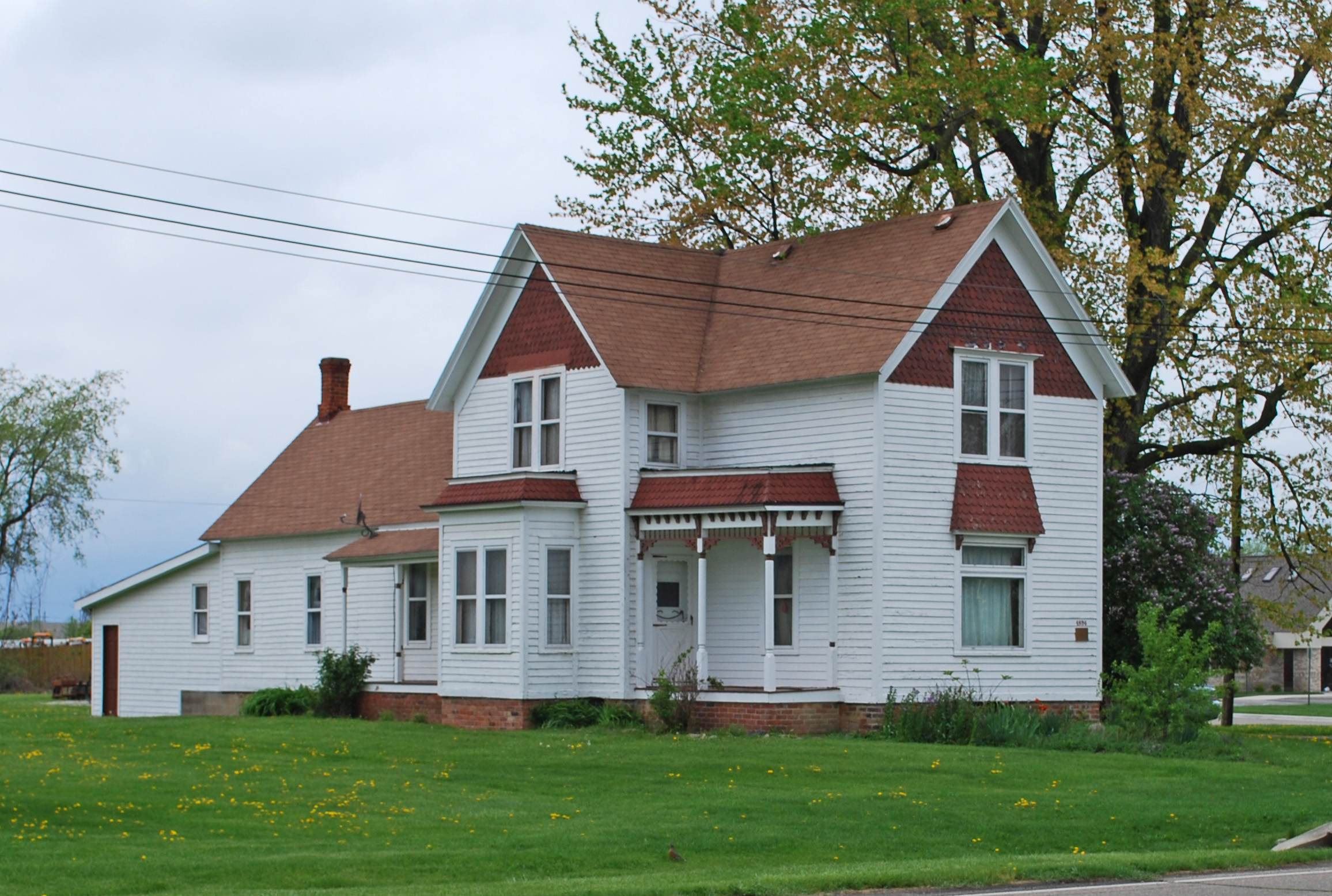 John And Edna Trusdell Fischer House, Canton MI